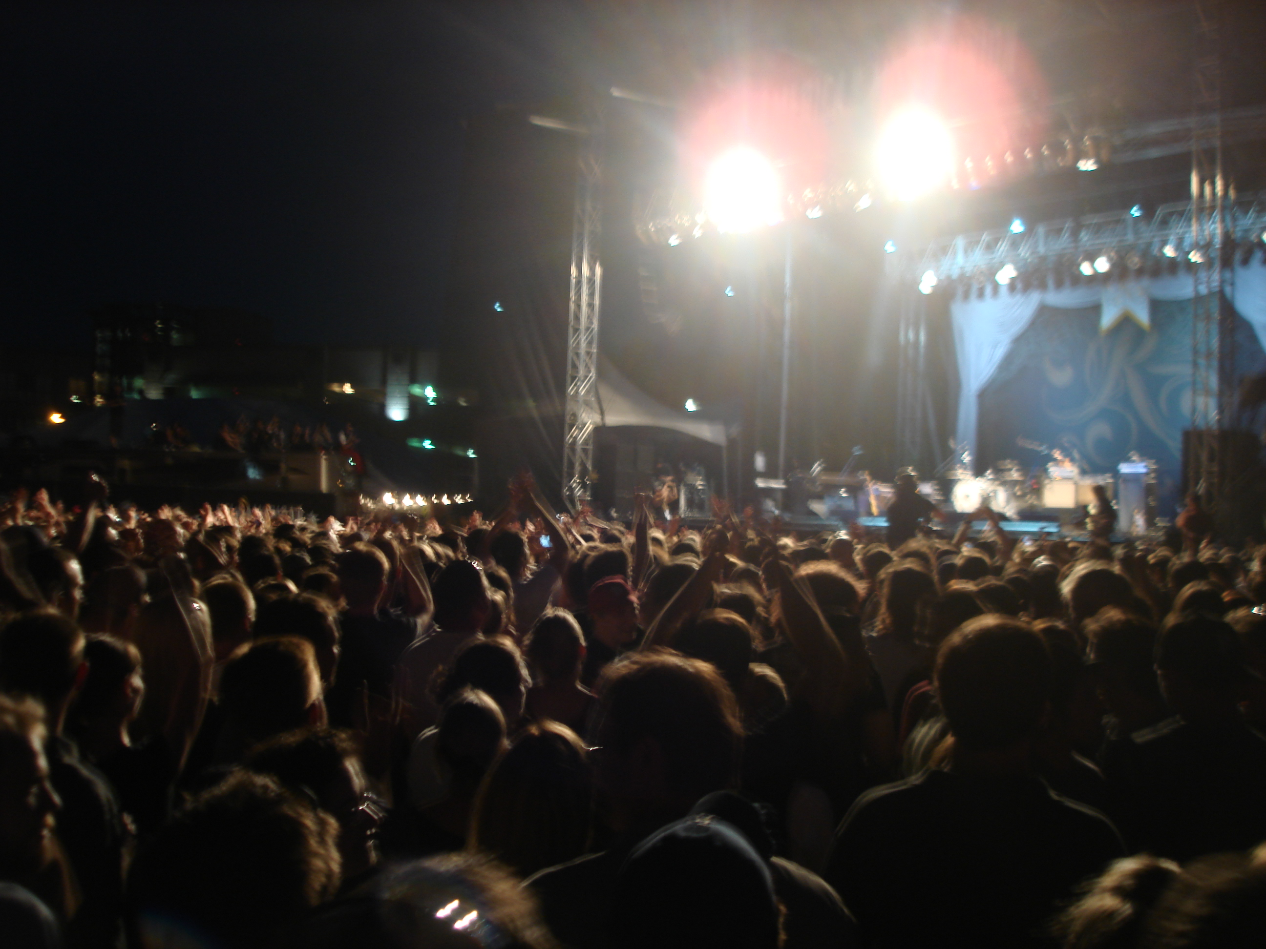 The crowd at New American Music Union.